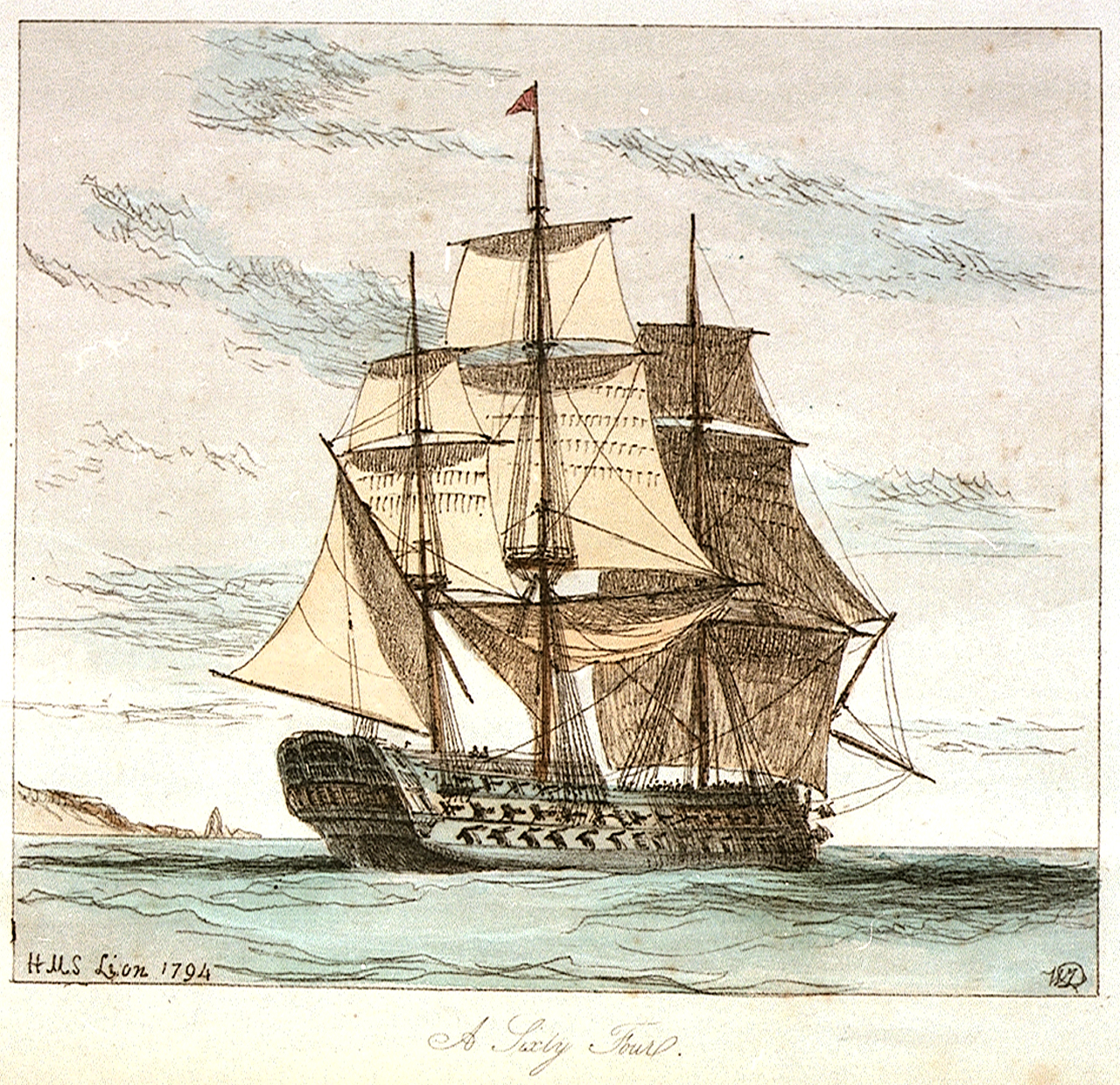 H.M.S. Lion 1794 Soft-ground etching.; Hand-coloured.